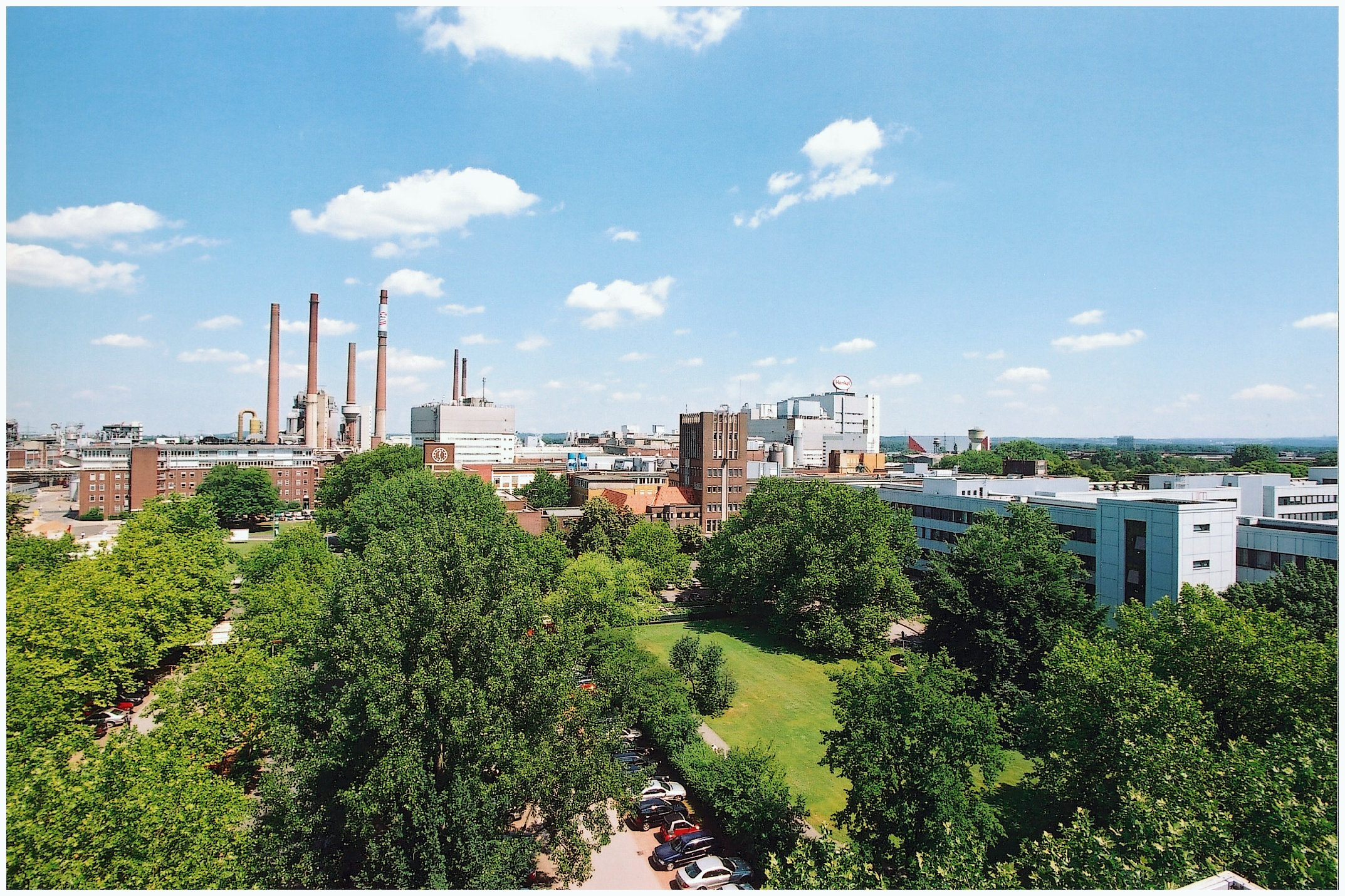 Henkel headquarters site in Duesseldorf-Holthausen